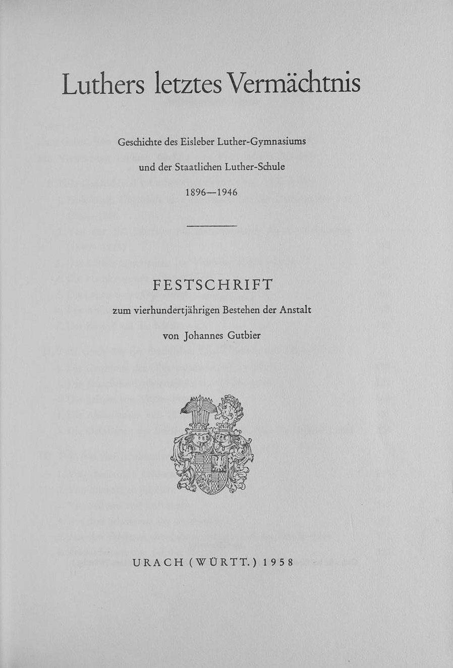 Title page of the commemoration "Luthers letztes Vermächtnis – Geschichte des Eisleber Luther-Gymnasiums und der Staatlichen Luther-Schule; 1896 – 1946". Publication for the four hundredth anniversary of the institution.